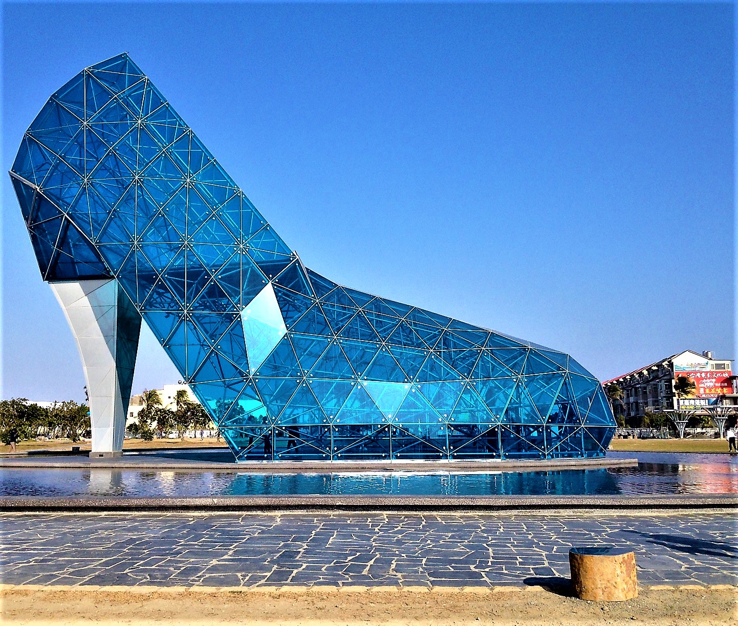 Glass High Heel Church in Budai Township, Chiayi County